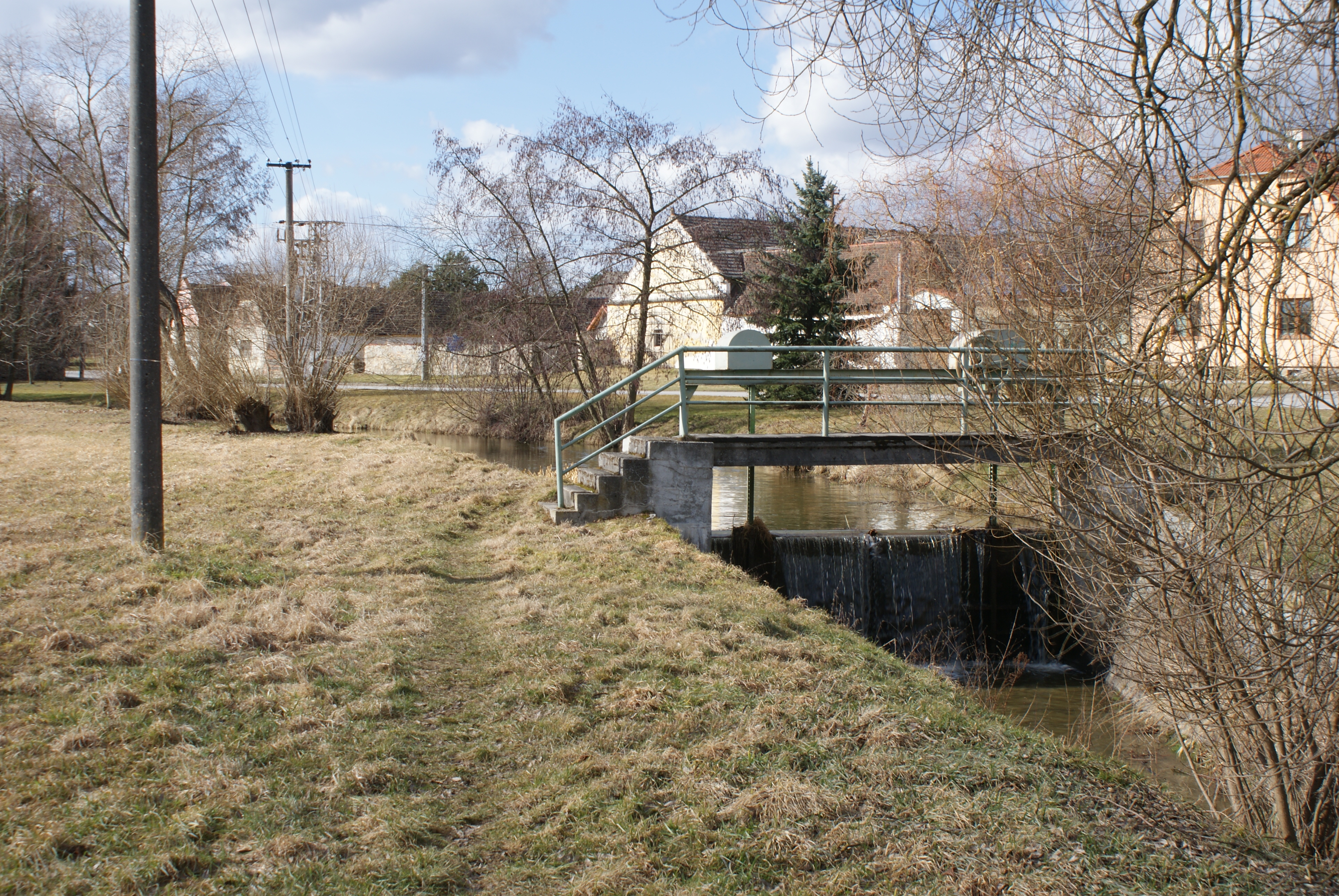 Skalský potok in Skály urban area, Southern Bohemia region, Czech Republic